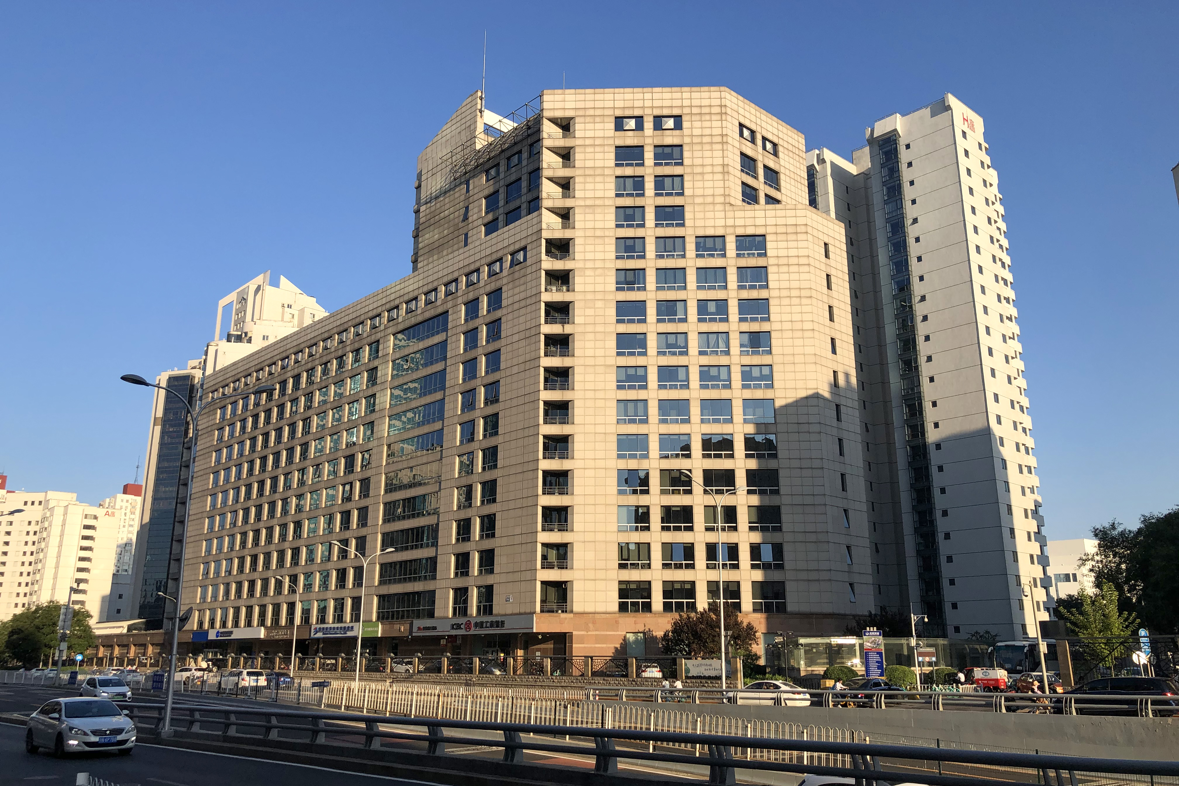 North Star Group headquartered here?